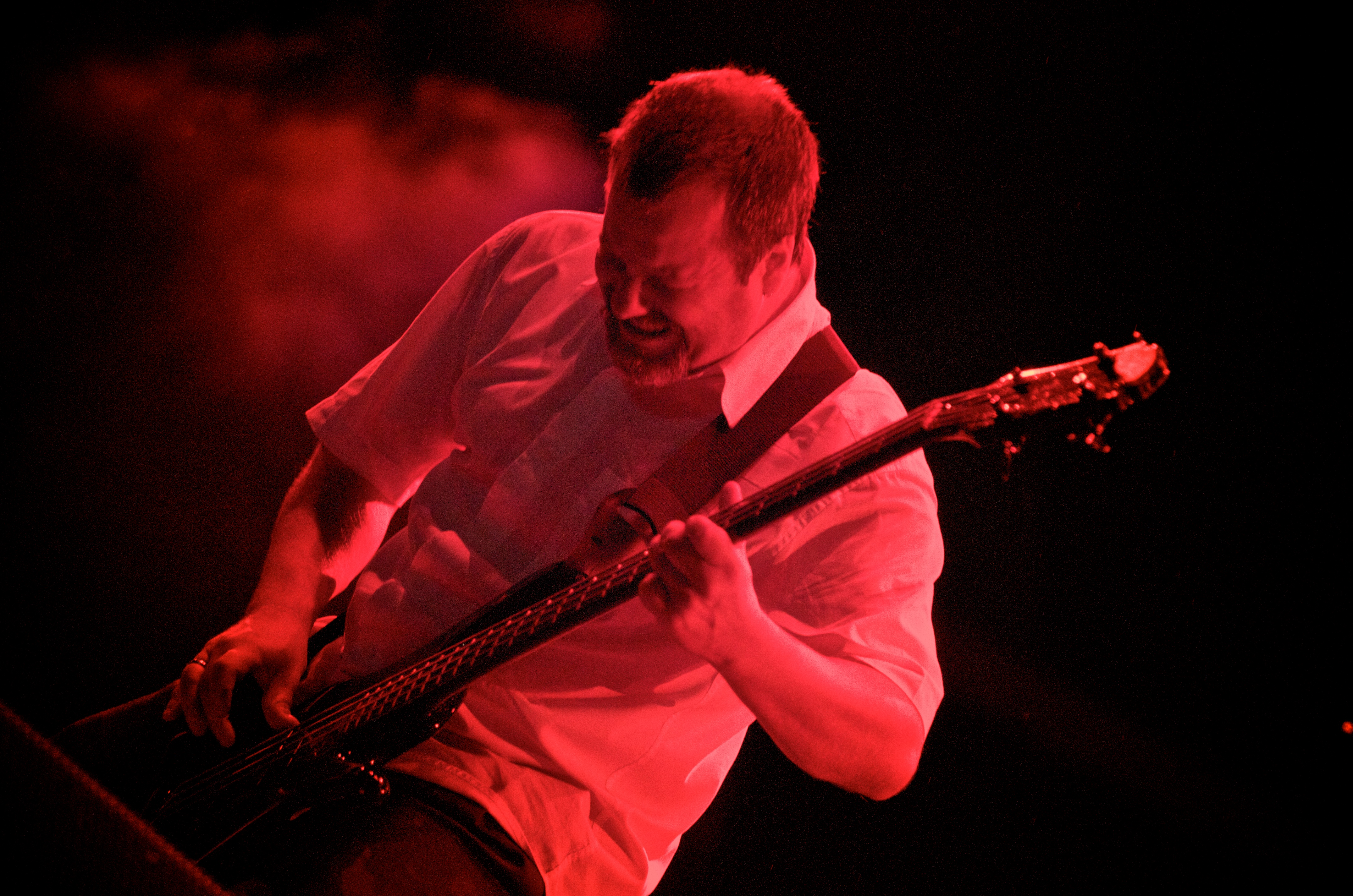 PFaith No More in Maquinária Festival, occurred in November 7 2009 at São Paulo, Brazil.